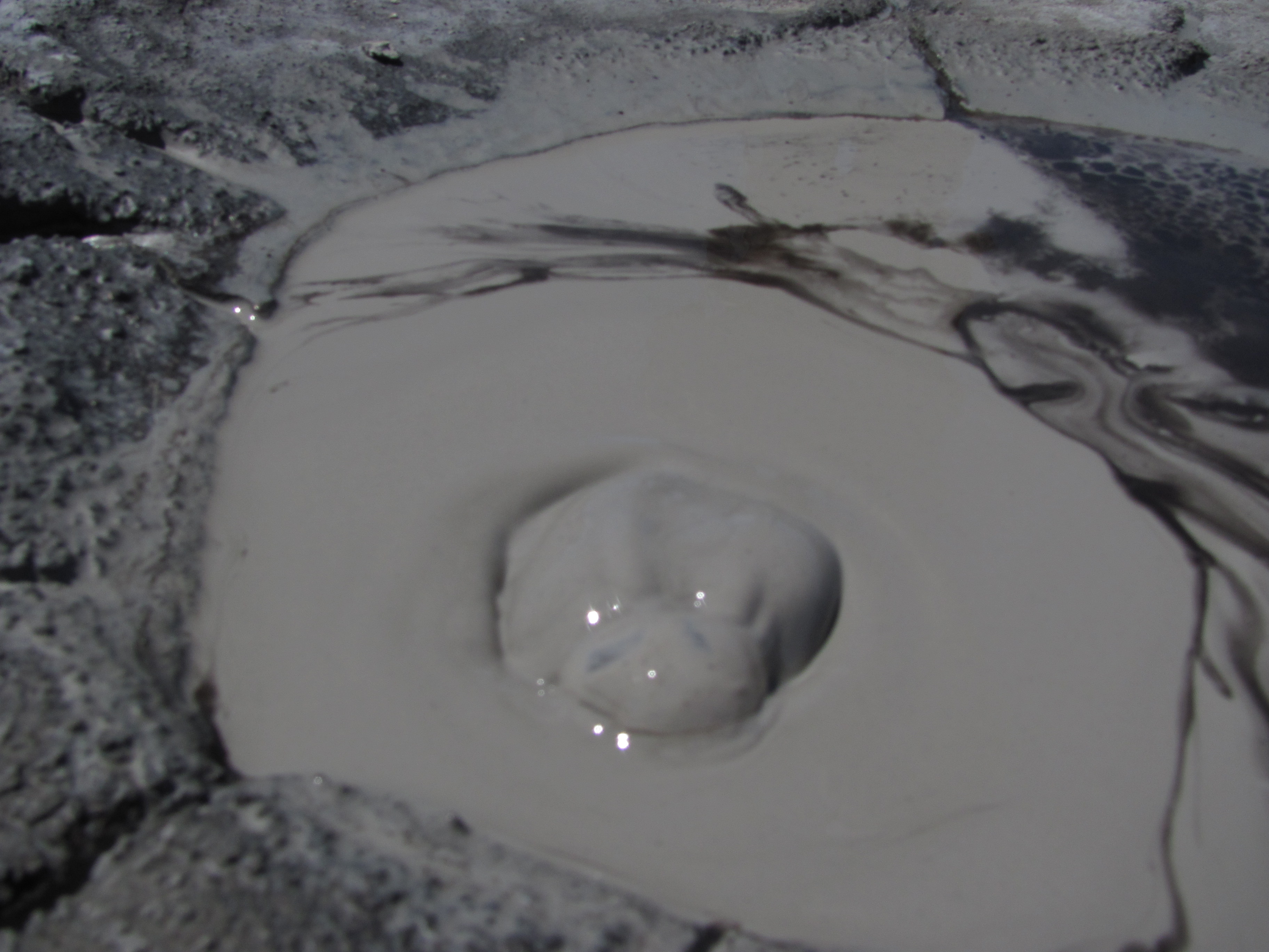 Mud pot. Mud volcano near Yuzhno-Sakhalinsk